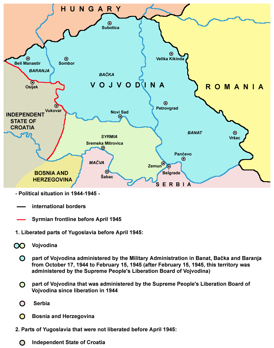 Vojvodina from October 1944 to April 1945 - territory of Military Administration in Banat, Bačka and Baranja and Syrmian frontline.